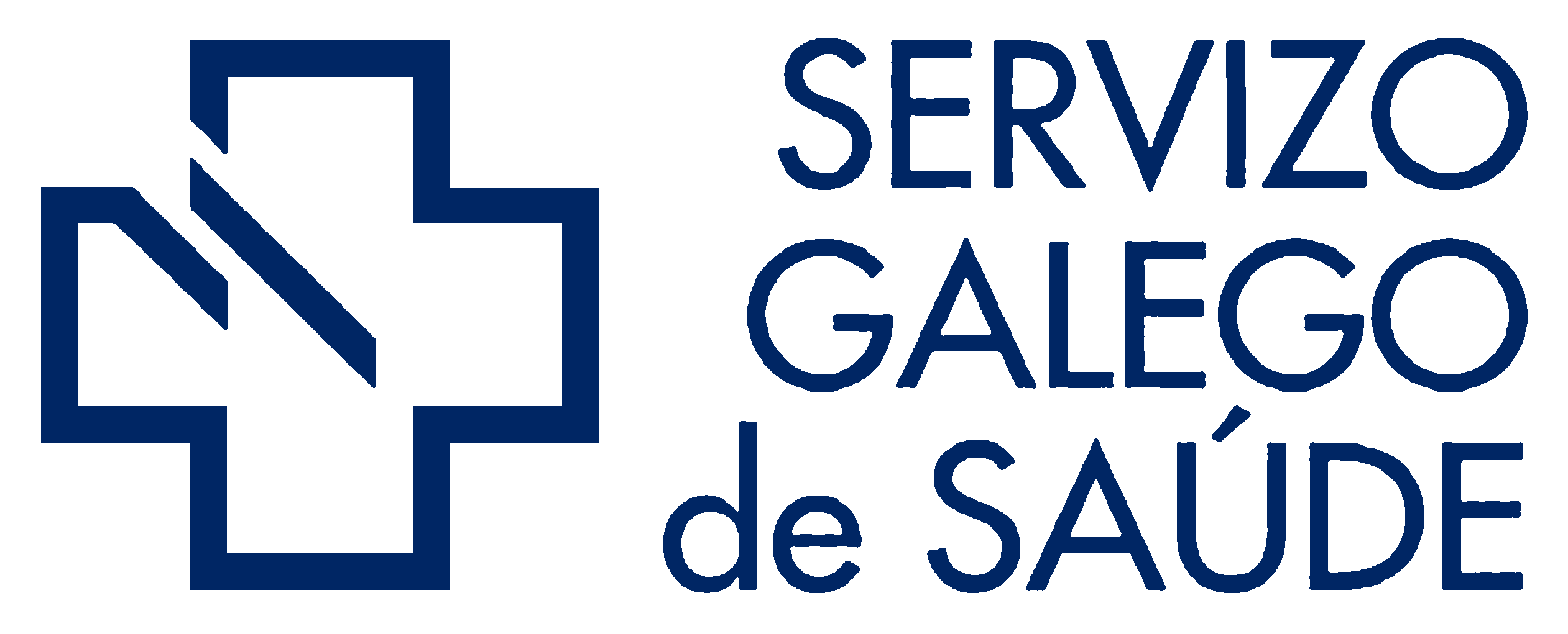 Logo of the Galician Healthcare Service. Logo uses Futura Normal typeface.